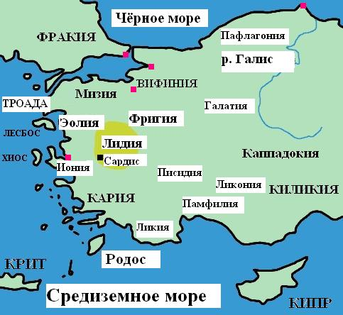 Map of Asia Minor in the Classical antiquity era